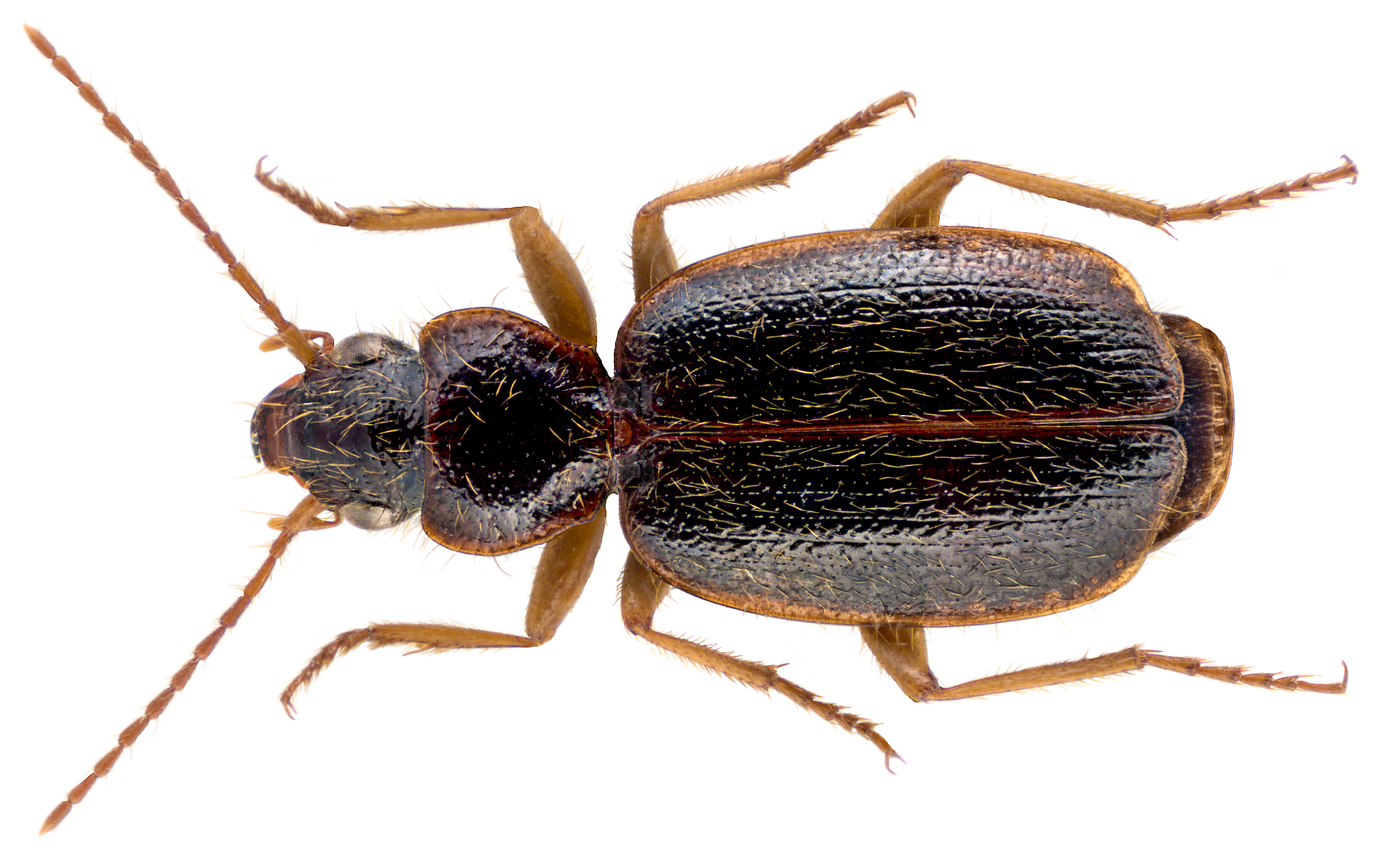 Family: Carabidae Size: 8,2 mm Location: Spain, Canary Islands, Gran Canaria, Mogan, 5,5 km NE leg. J.Schoenfeld, 3.I.2007; det. M.Baehr, 2008 Photo: U.Schmidt, 2015